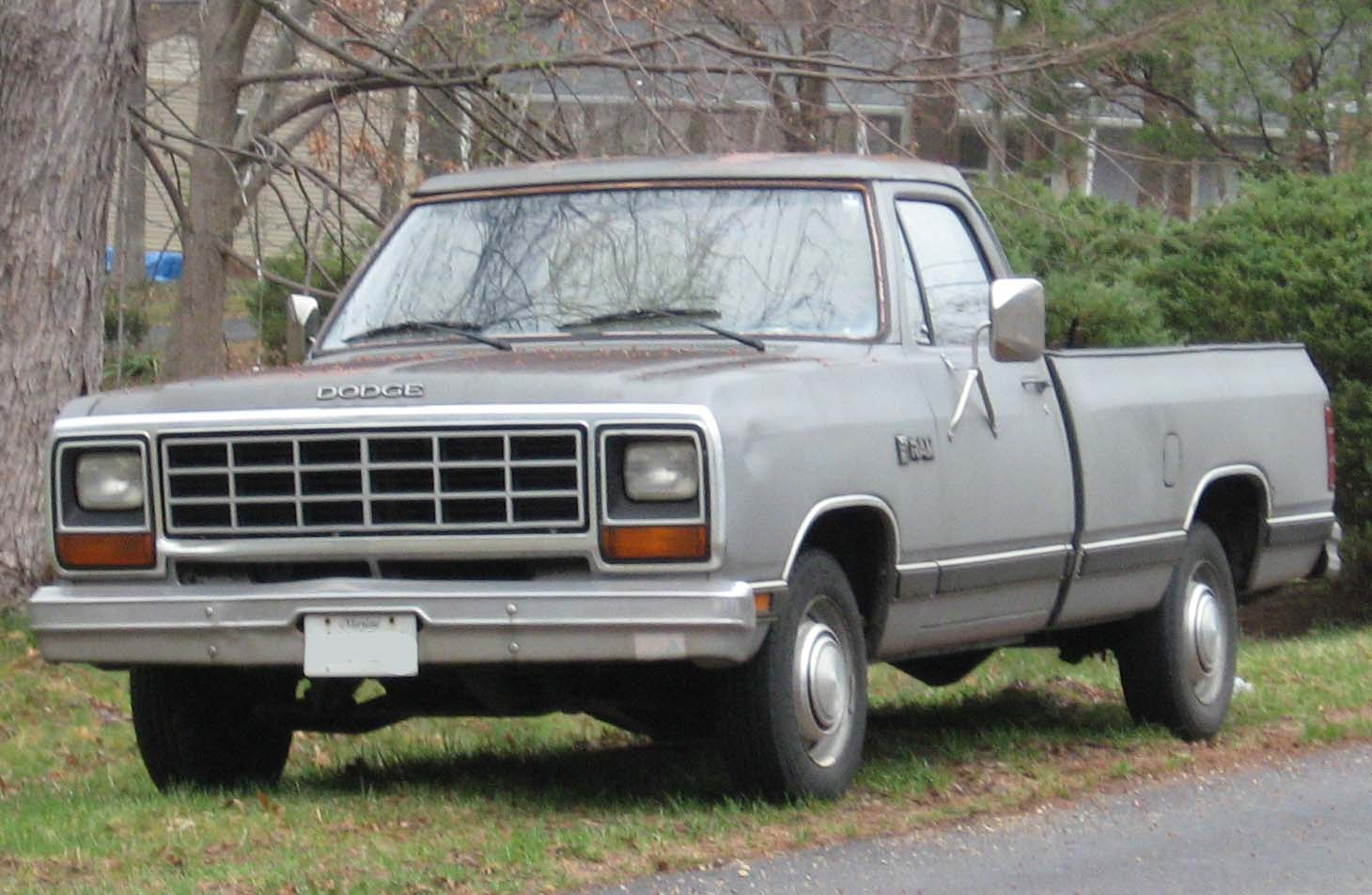 1981-1993 Dodge Ram photographed in USA.